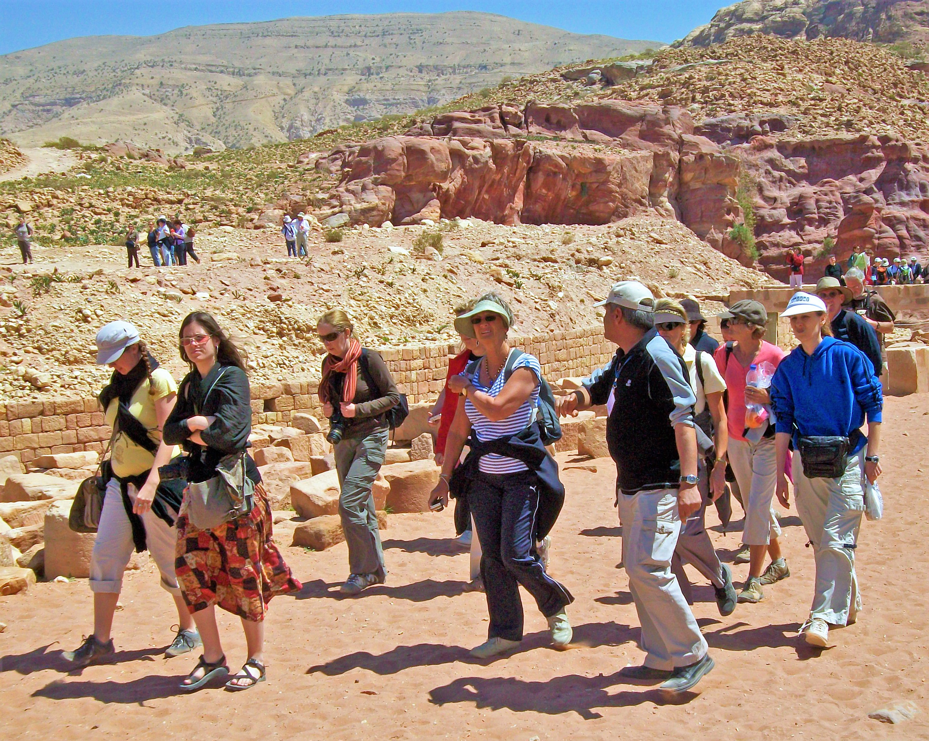 Tourists with a guide (dark blue jacket and baseball cap, right of center) in the lower canyon at Petra, Jordan